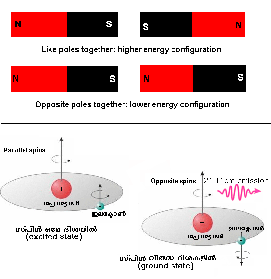 21cm emission